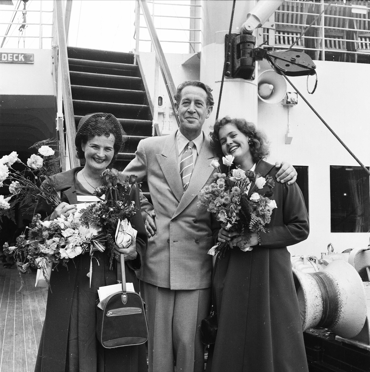 Sonja Mjøen and Axel Kielland. Norwegian actress Sonja Mjøen and her daughter leaving for USA on Oslofjord, dated Oslo, 15 July 1953. In the middle, her former husband, journalist Axel Kielland.